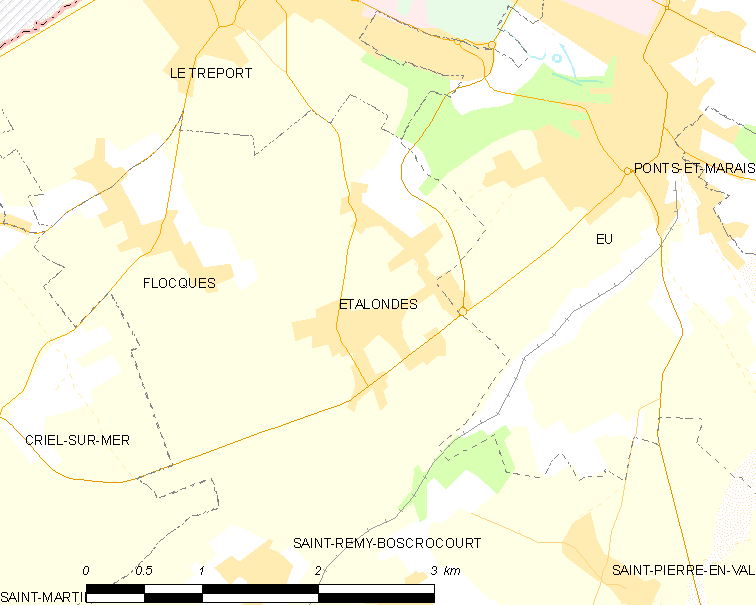 Map of French municipality Étalondes